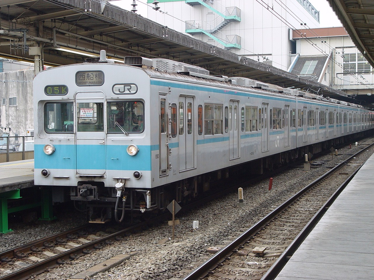 JR East 301 series set K5 at Mitaka Station on a Tozai Line through-running service